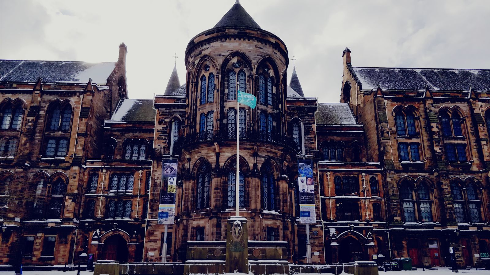 Glasgow University North front with GUMSA flag flying